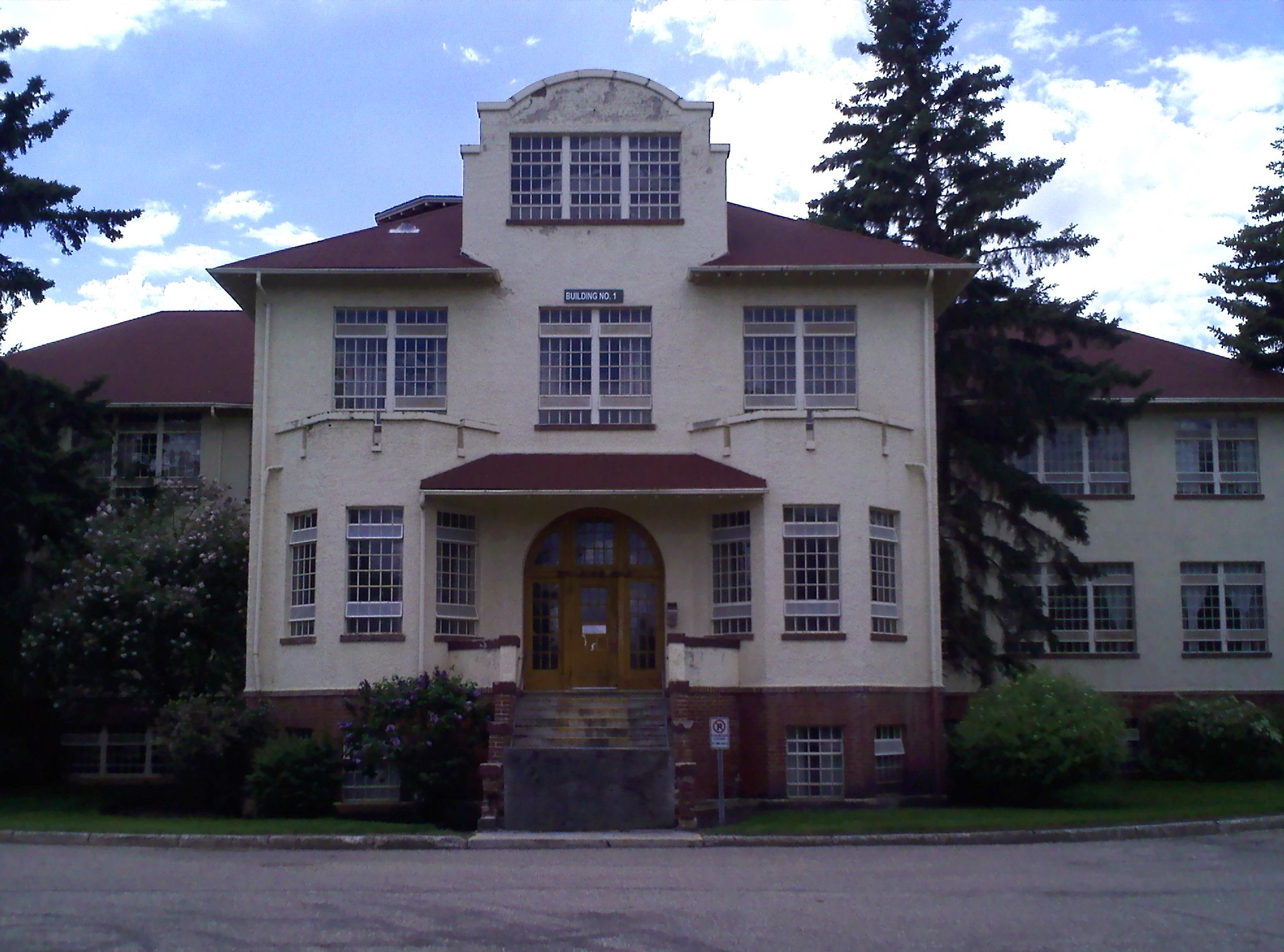 Northeast side of Alberta Hospital Edmonton building 1.